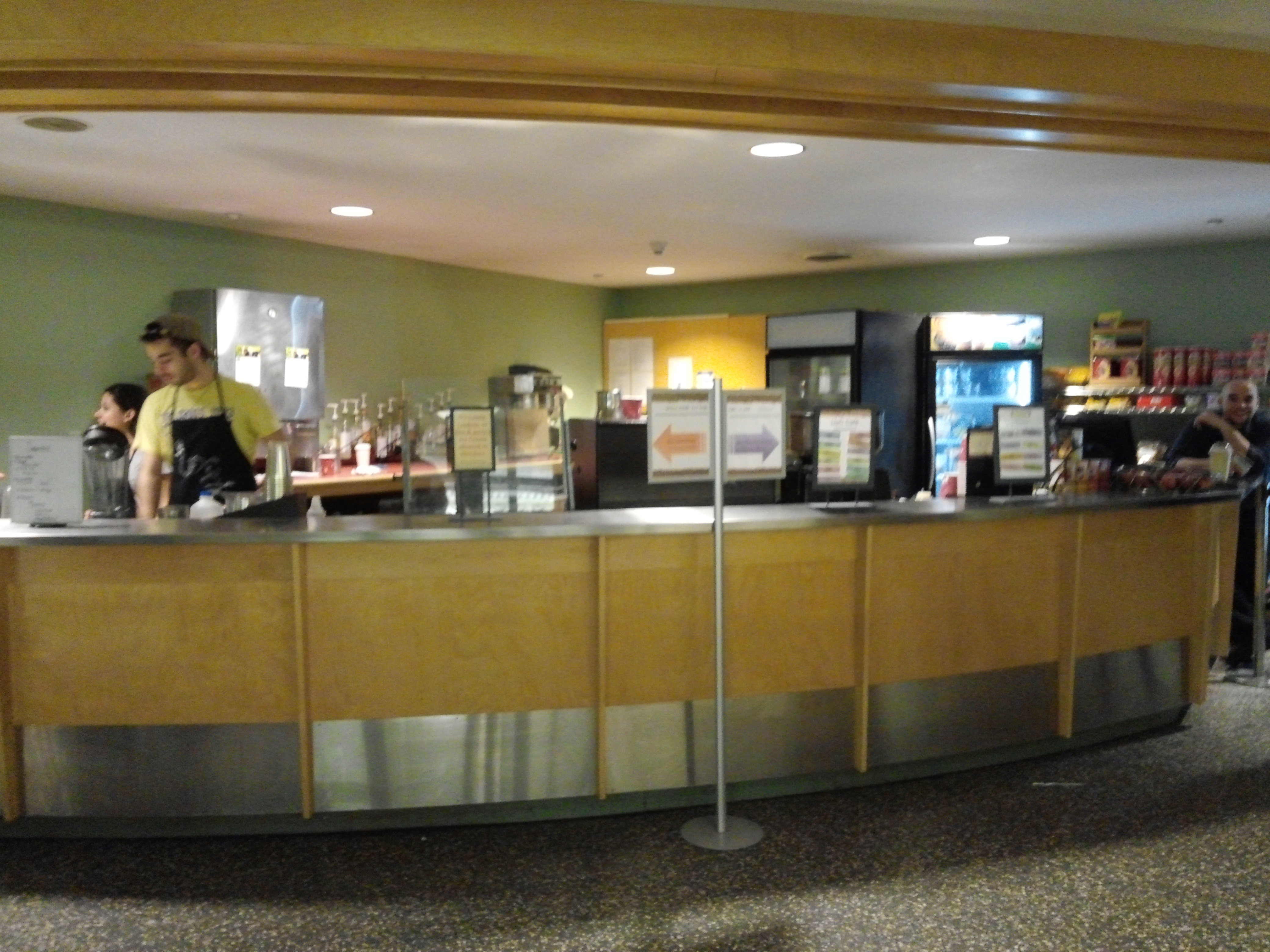 The UpC Cafe on the third floor of the Students' Building on the campus of Vassar College in the town of Poughkeepsie, New York, US.